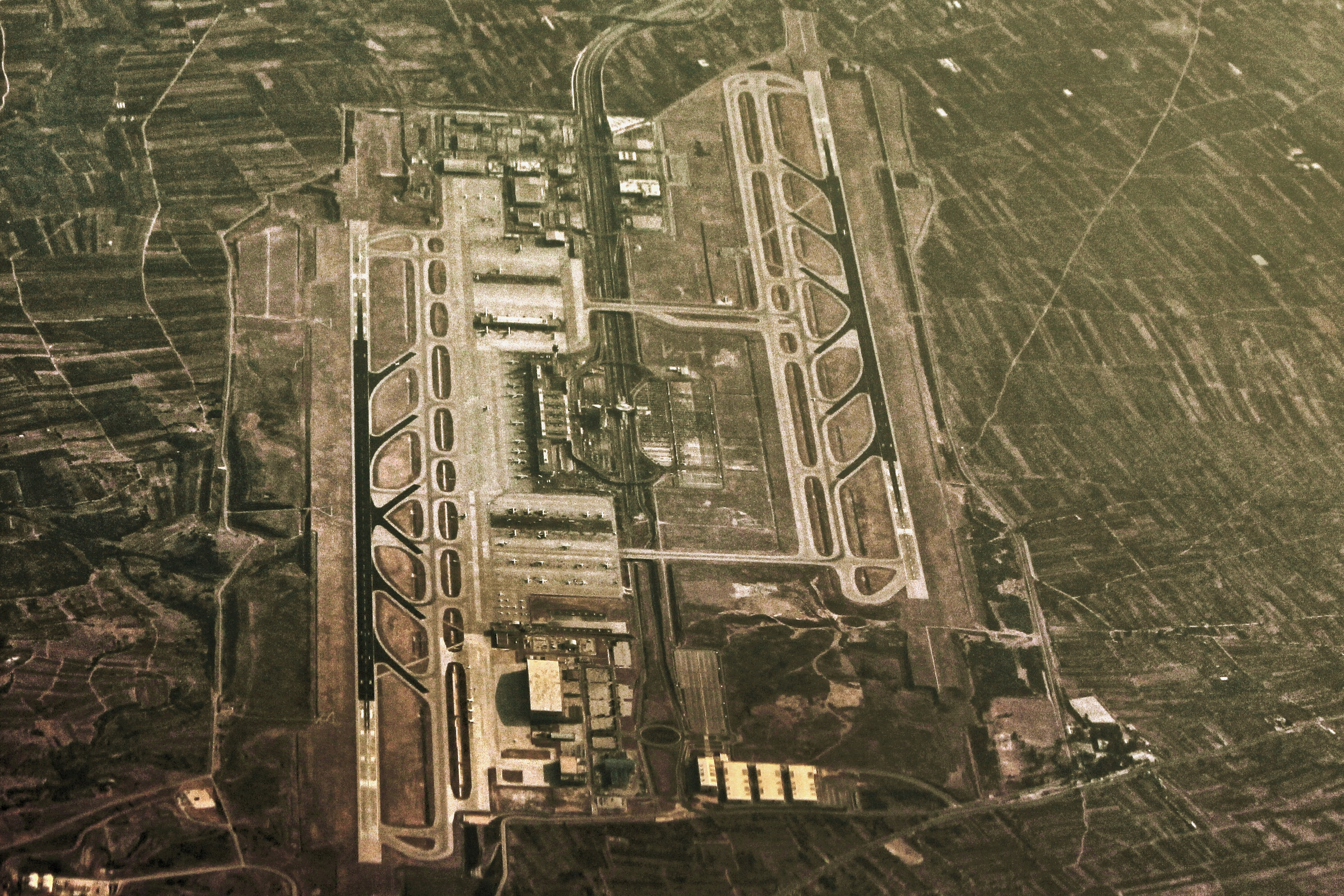 Aerial view of Athens Airport, photographed from an airplane